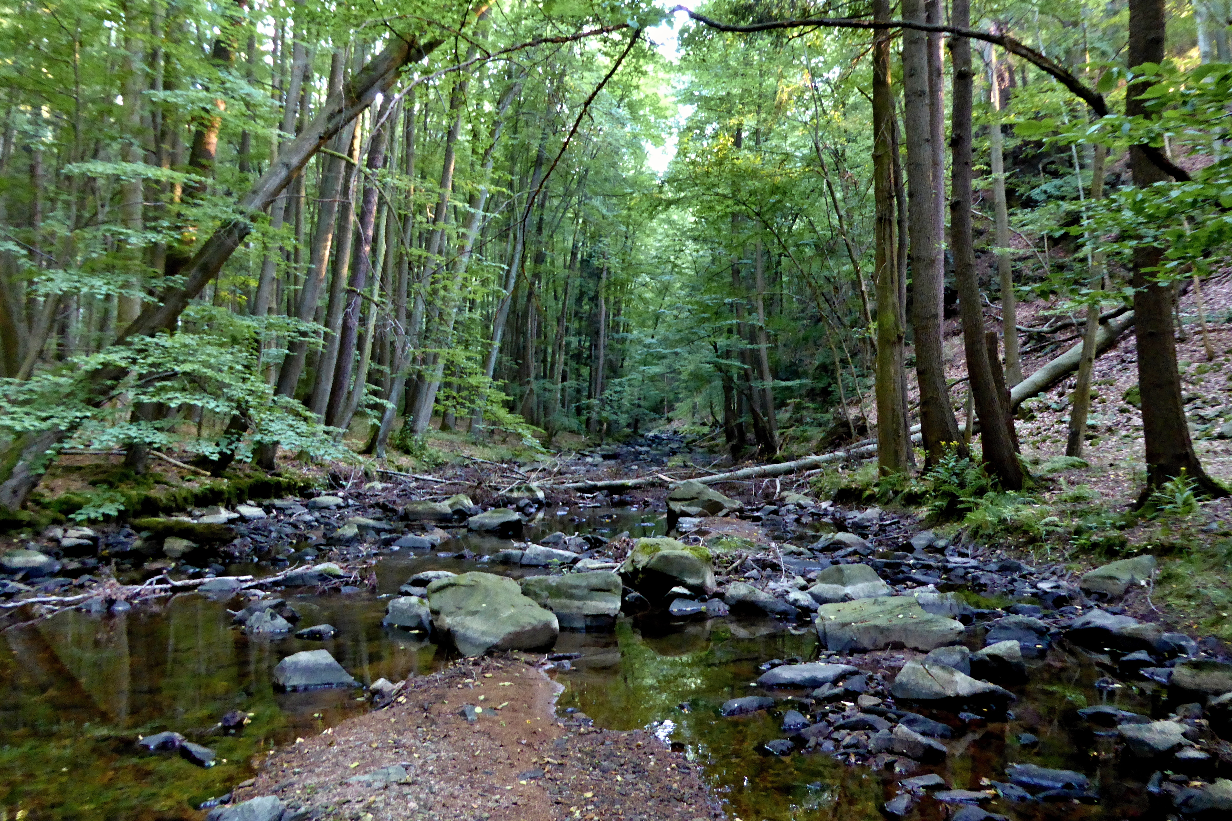 Natural Park The valley of Krounka and Novohradka. Photo location - Czechia, Hněvětice (part of municipality Skuteč), Krounka river.